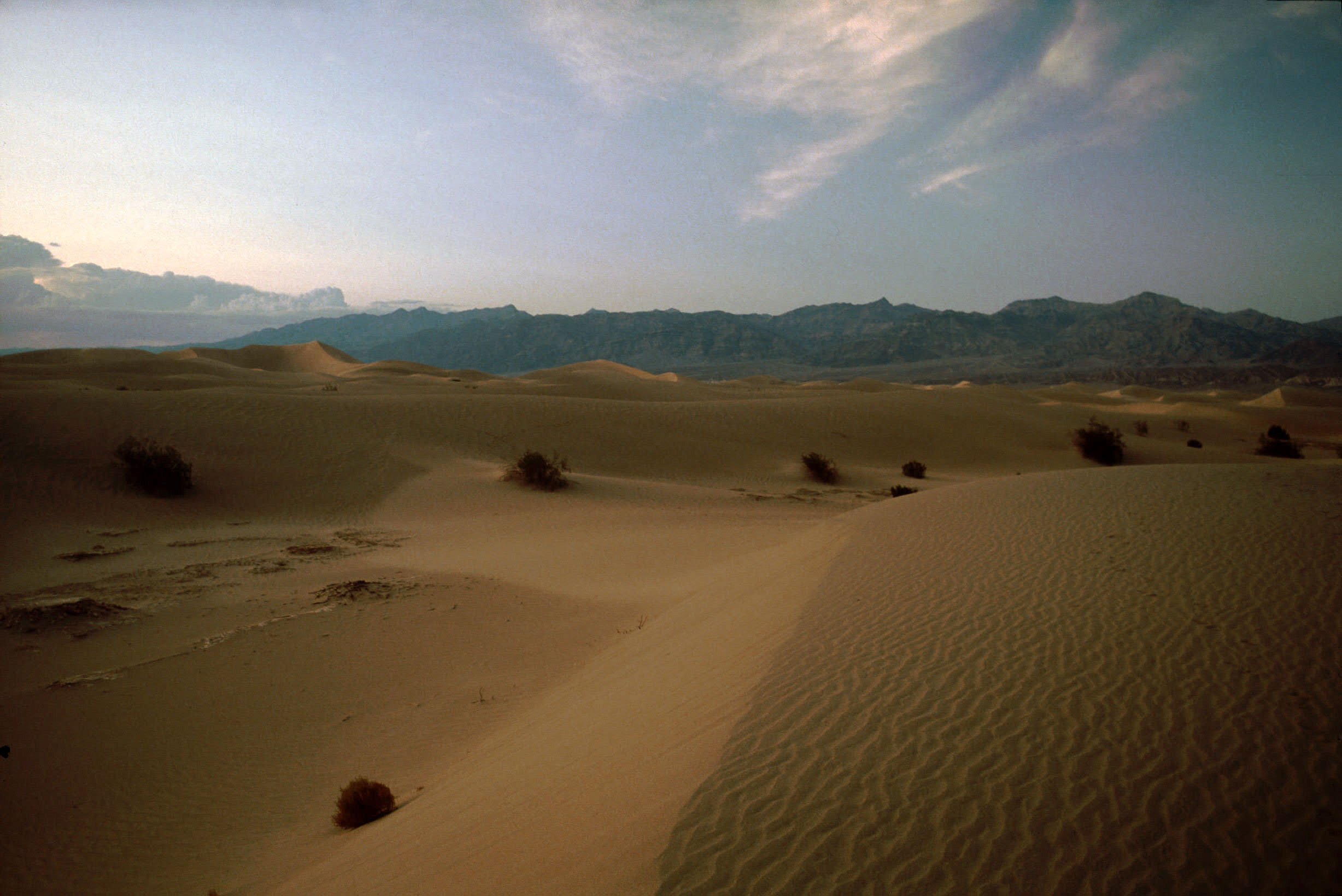 Death Valley,Stovepipe Wells,Desert dunes